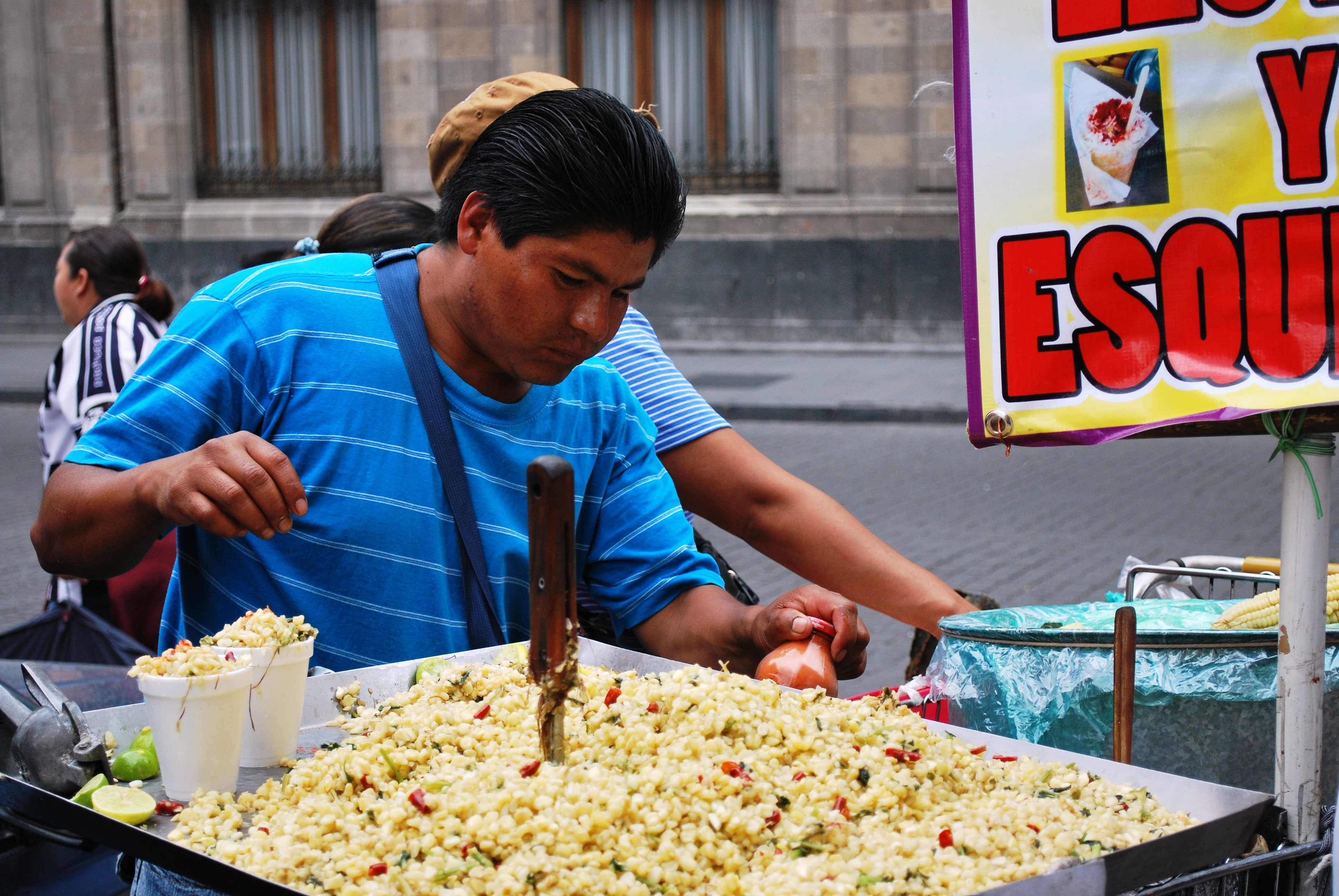 Street vendor selling "esquites" (fresh corn kernels sauteed with chili peppers and other spices) on the street in the historic center of Mexico City